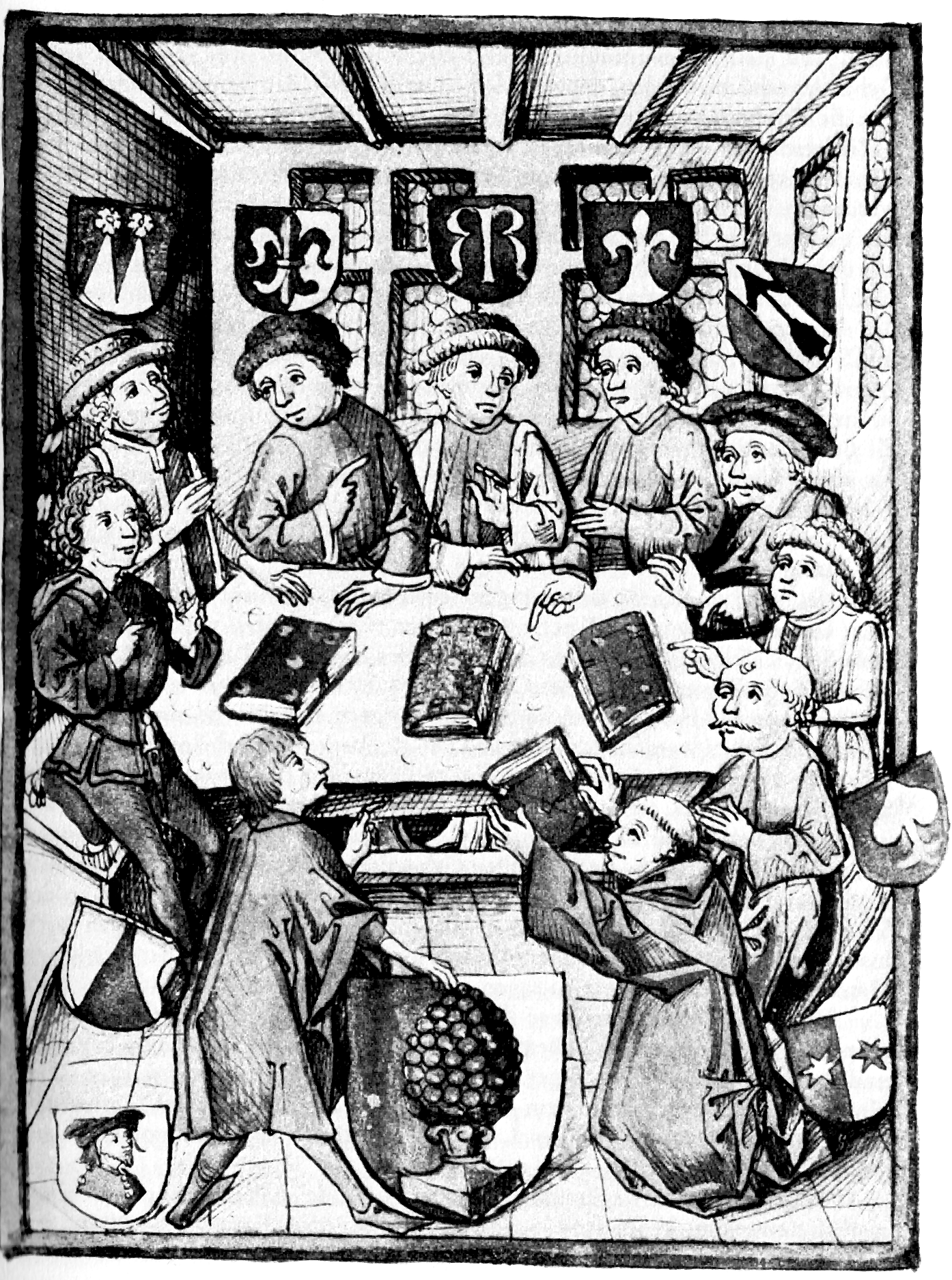 A meeting of a town council